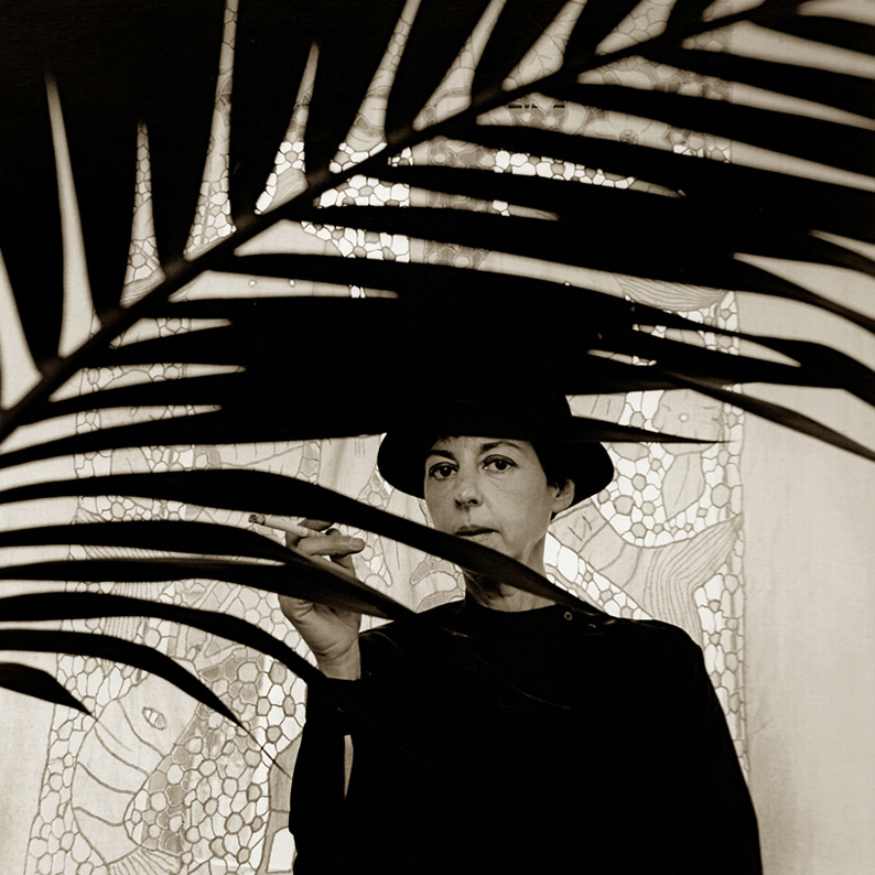 Portrait of Fabrizia Ramondino - Augusto De Luca photographer